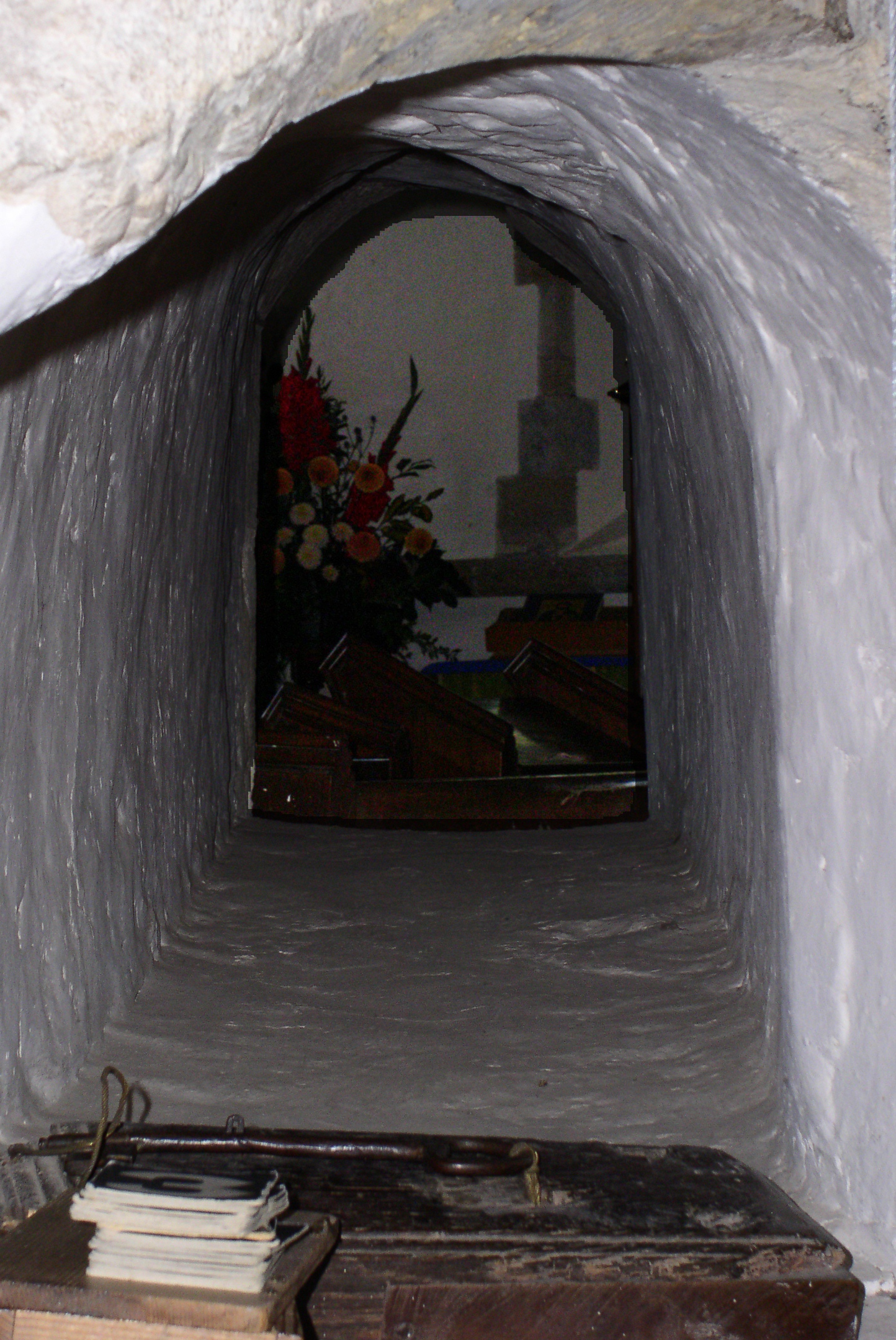 The hagioscope or squint, in St Mary's parish church, West Chiltington, West Sussex, England